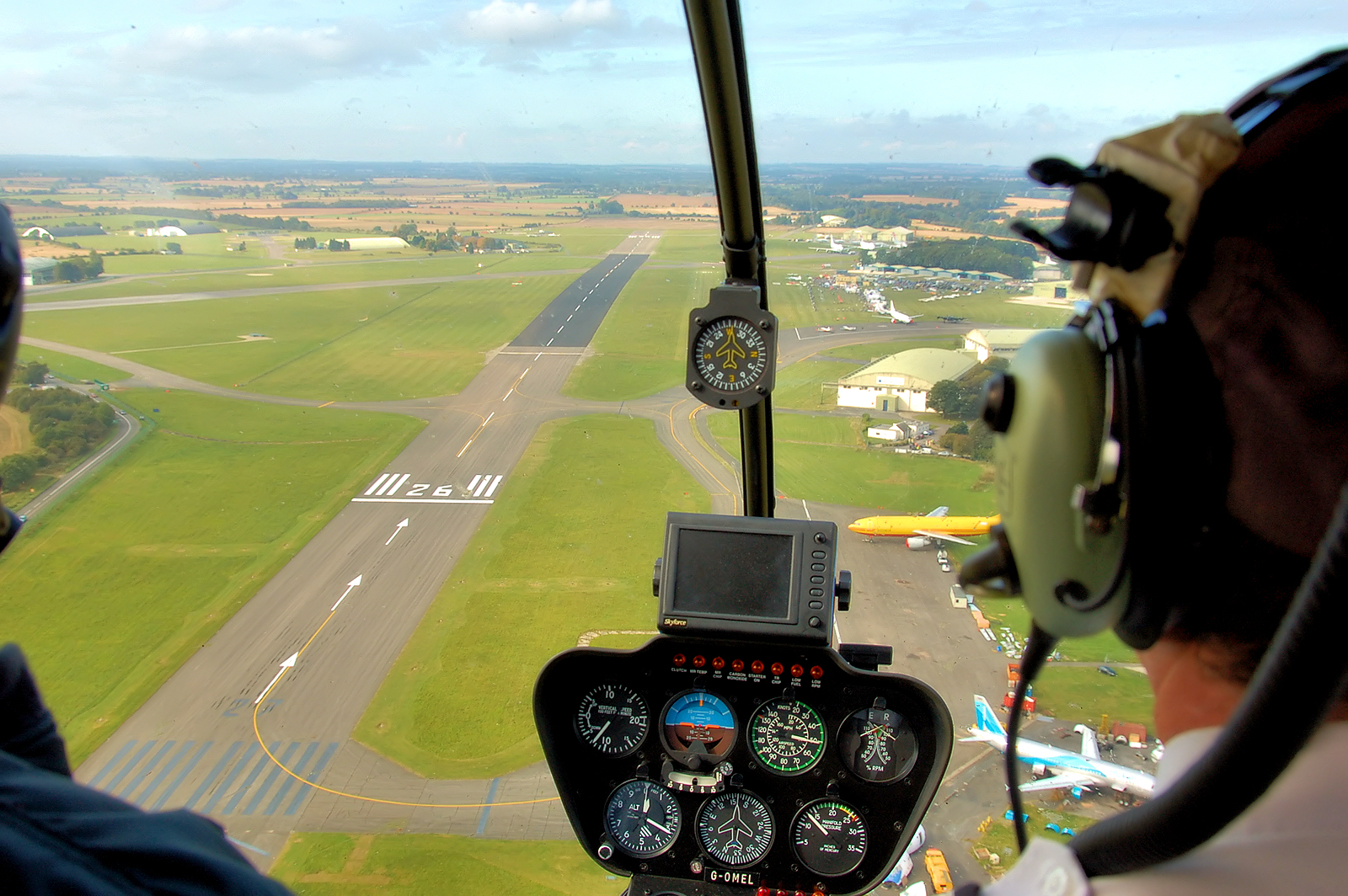 View during a pleasure flight in a Robinson R44 Astro helicopter (G-OMEL), at Cotswold Airport, Kemble, Gloucestershire, England (previously known as Kemble Airport). Looking west, at the Battle of Britain Weekend 2009. The pilot is on the right.